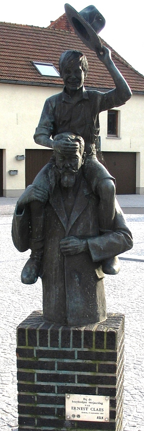 Statue of Ernest Claes, Flemish writer, on square in Zichem, Belgium